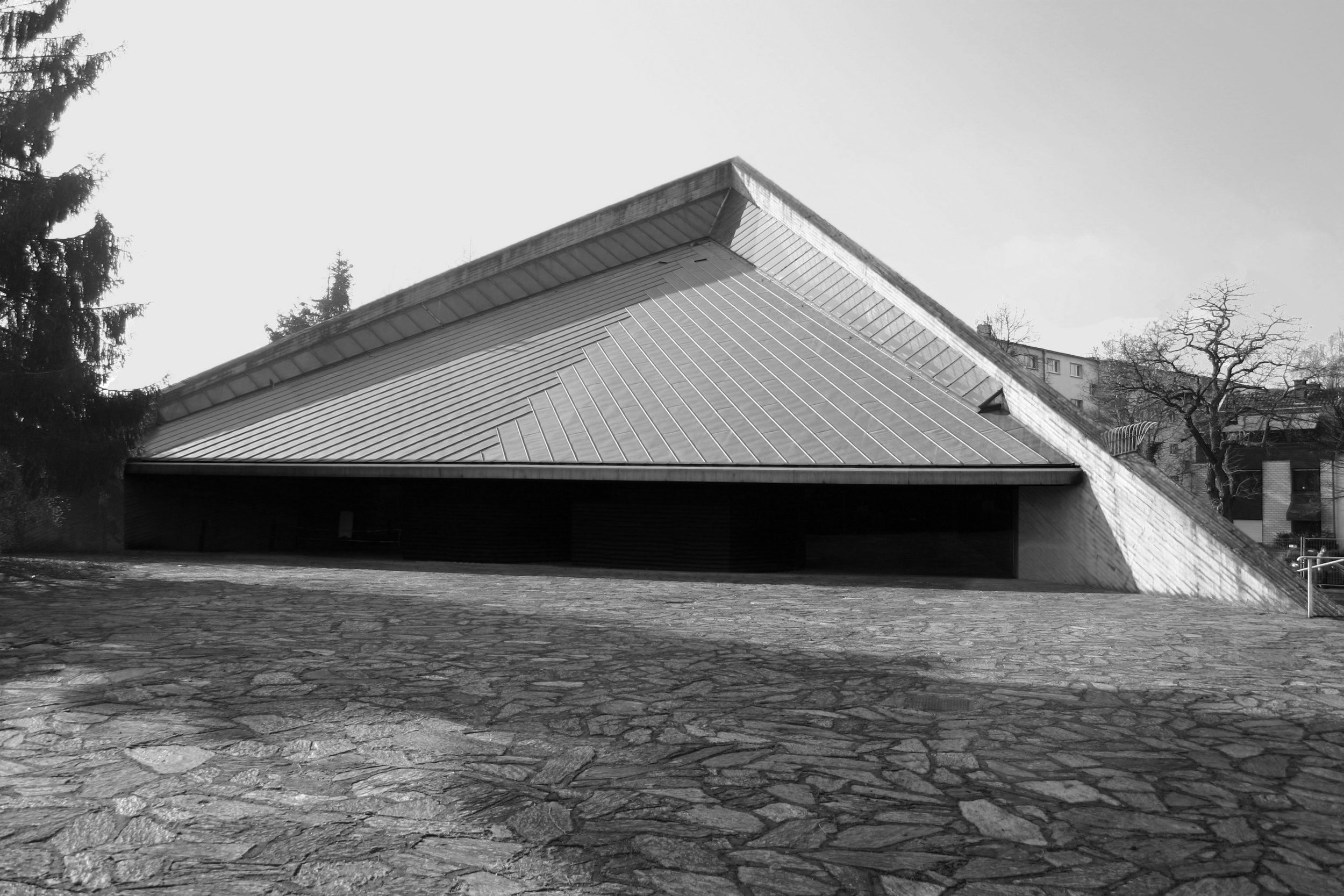 Auferstehungskirche Köln-Buchforst